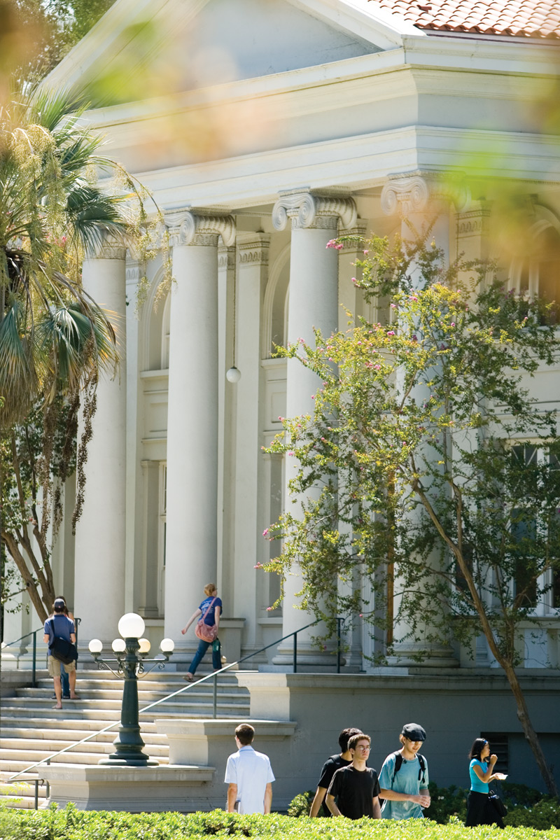 The Carnegie Building for Economics